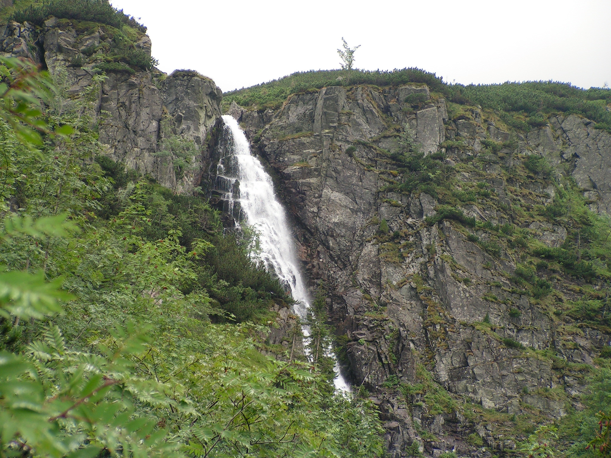 Hviezdoslavov vodopád in Bielovodská dolina